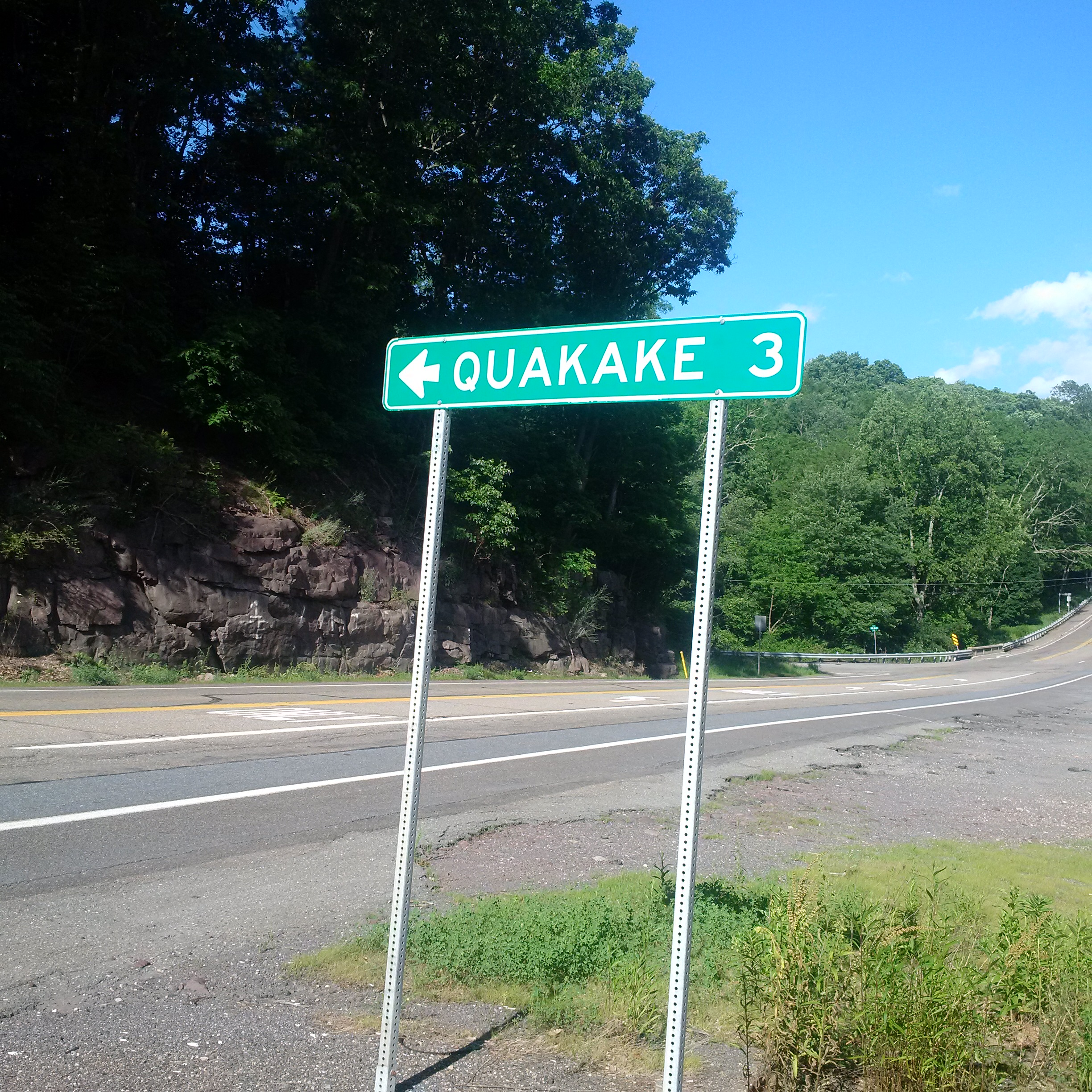 Directional sign for Quakake located on PA 54 East in Rush Township, Pennsylvania, near intersection of Marian Ave.